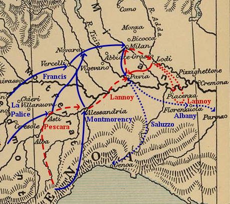 Map of troop movements during the Pavia campaign (1524–25). Solid blue line - French advance into Lombardy (in three columns), concentration, and attack on Pavia. Dotted blue lines - Saluzzo's expedition to Genoa and the Duke of Albany's march to Naples. Dashed red line - Imperial retreat to Lodi. Dotted red line - Lannoy's movement to intercept Albany. Solid red line - Imperial offensive against the French besiegers of Pavia in early 1525.